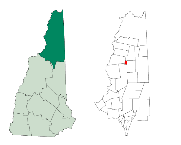 Map of a municipality in Coos County, New Hampshire